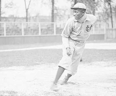 This photonegative taken by a Chicago Daily News photographer may have been published in the newspaper. The Photographer shows Lytle after he has pitched a ball. Chicago Daily News negatives collection, DN-0003451. Courtesy of Chicago History Museum.